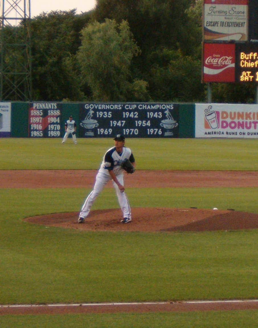 Chien-Ming Wang while pitching for the Syracuse Chiefs